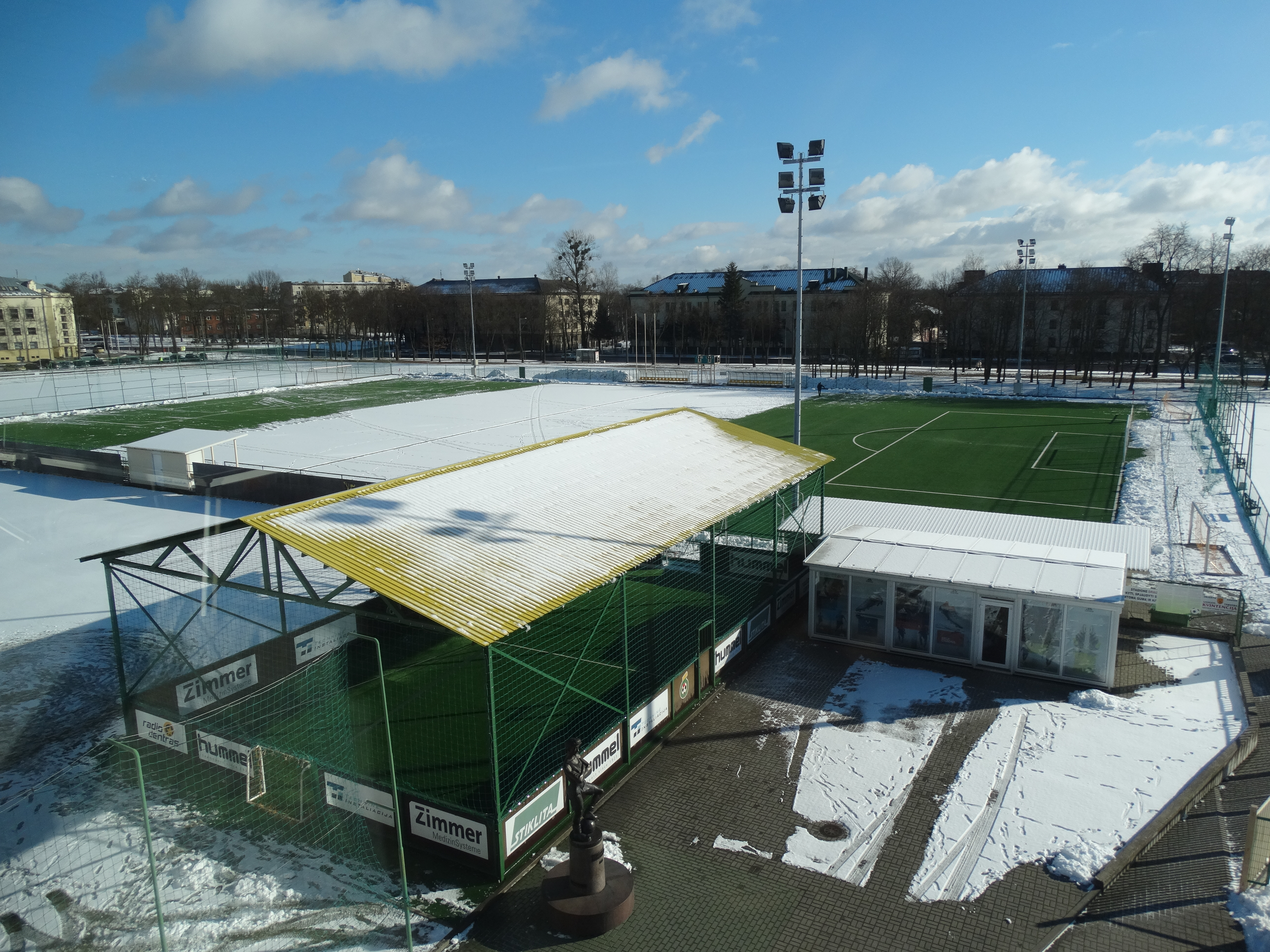 Football Indoor Arena, stadium, Kaunas, Lithuania